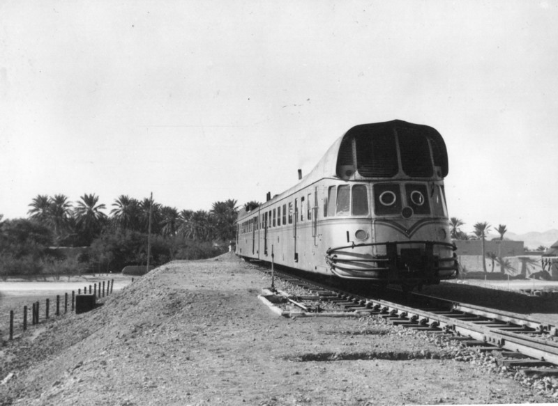 ABV 2 Renault railcar CFA ZZG 1-3, 1937, Algeria.